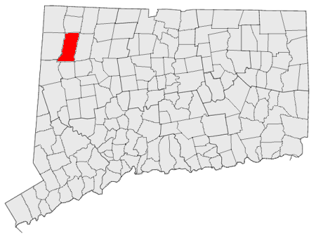 Locator map for Cornwall, Connecticut